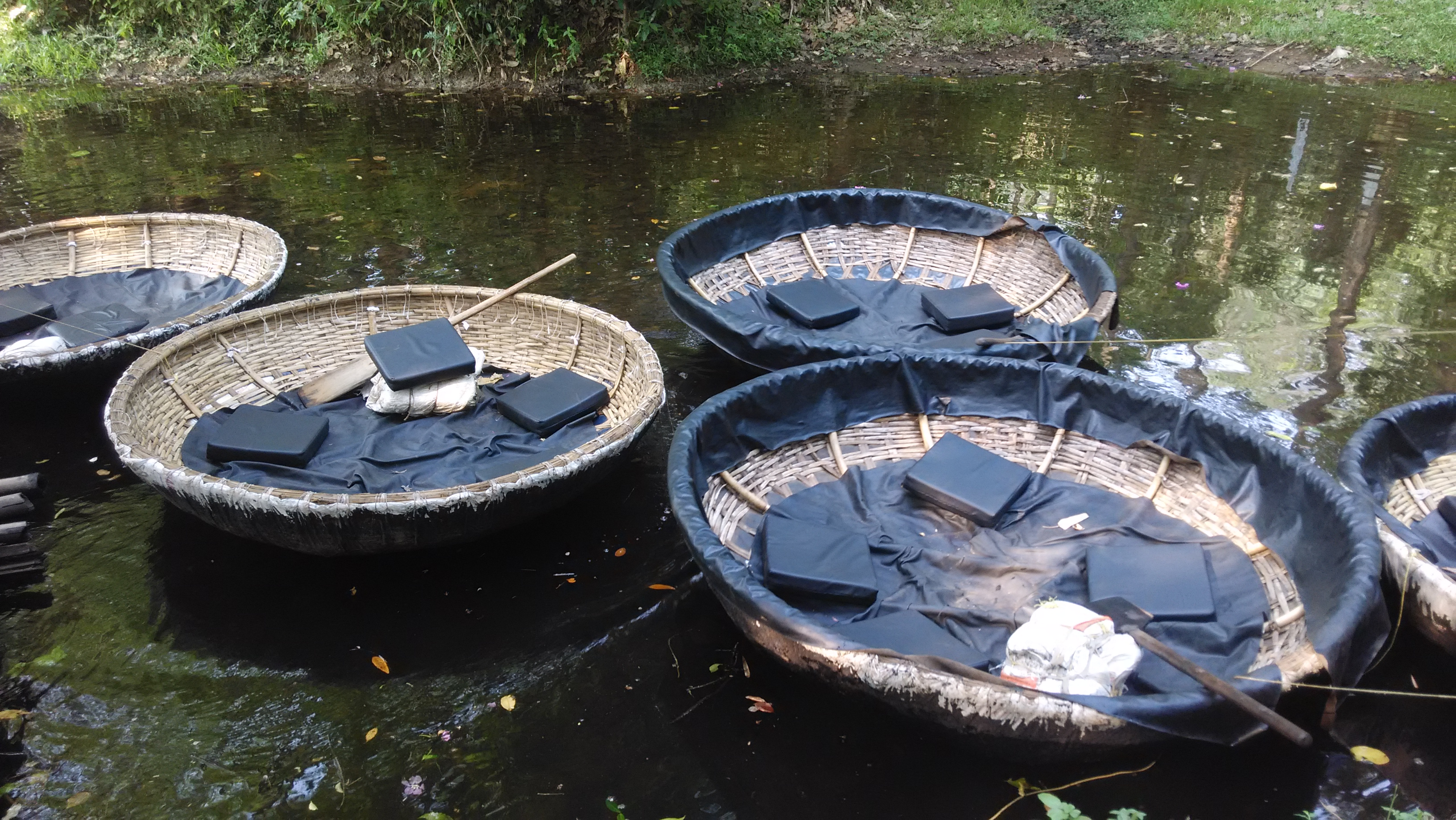 Kuttavallam. Also known as Kutta Vanchi or kotta vanchi (Coracle Boat, Bowl boat)